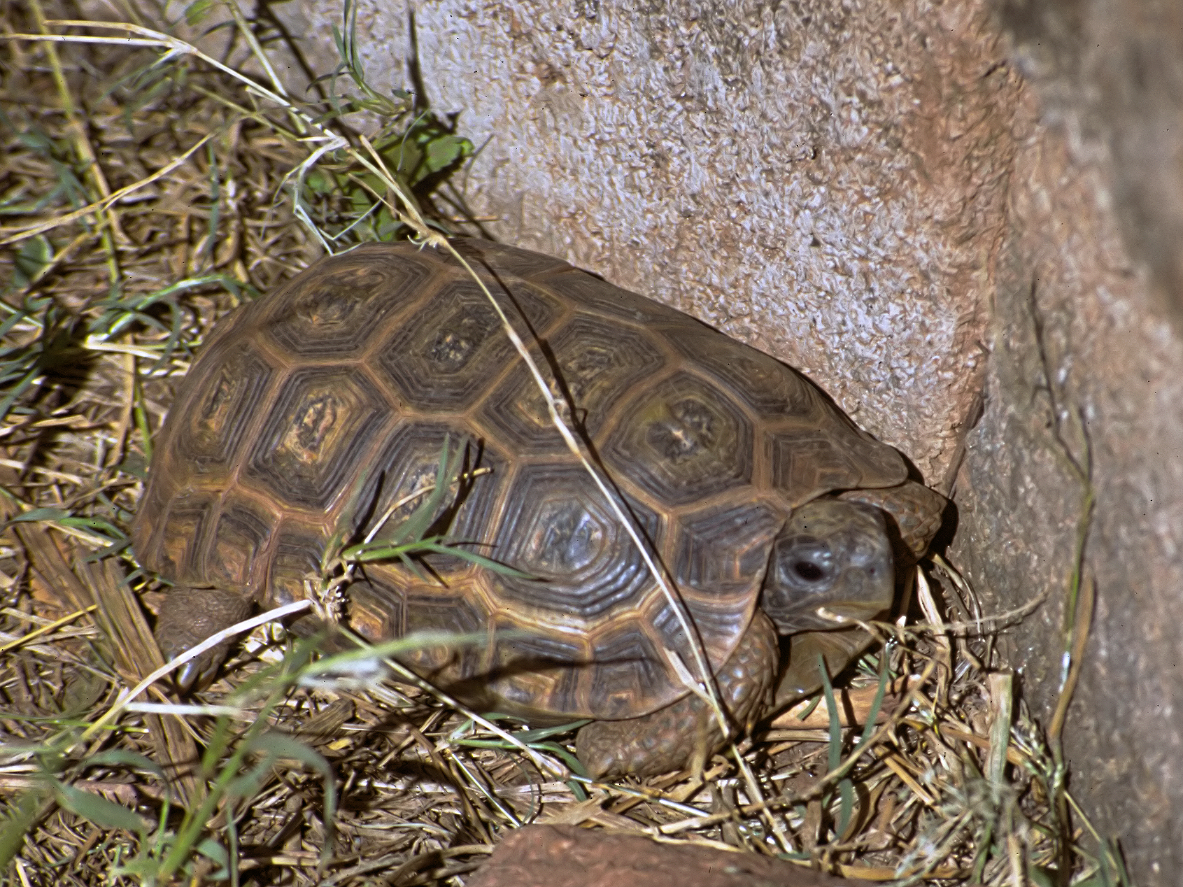 Female Speke's hinge-back tortoise near Chipata, Zambia.